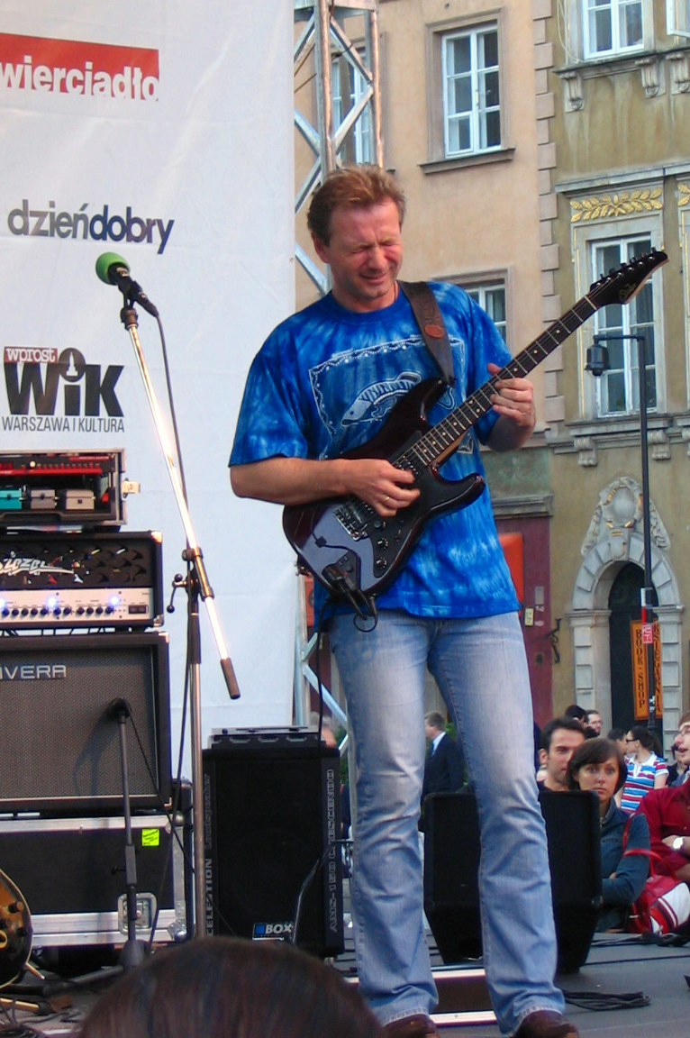 Marek Raduli, Polish rock guitarist, in concert with Krzysztof Ścierański band, Old Town Square, Warsaw, Poland